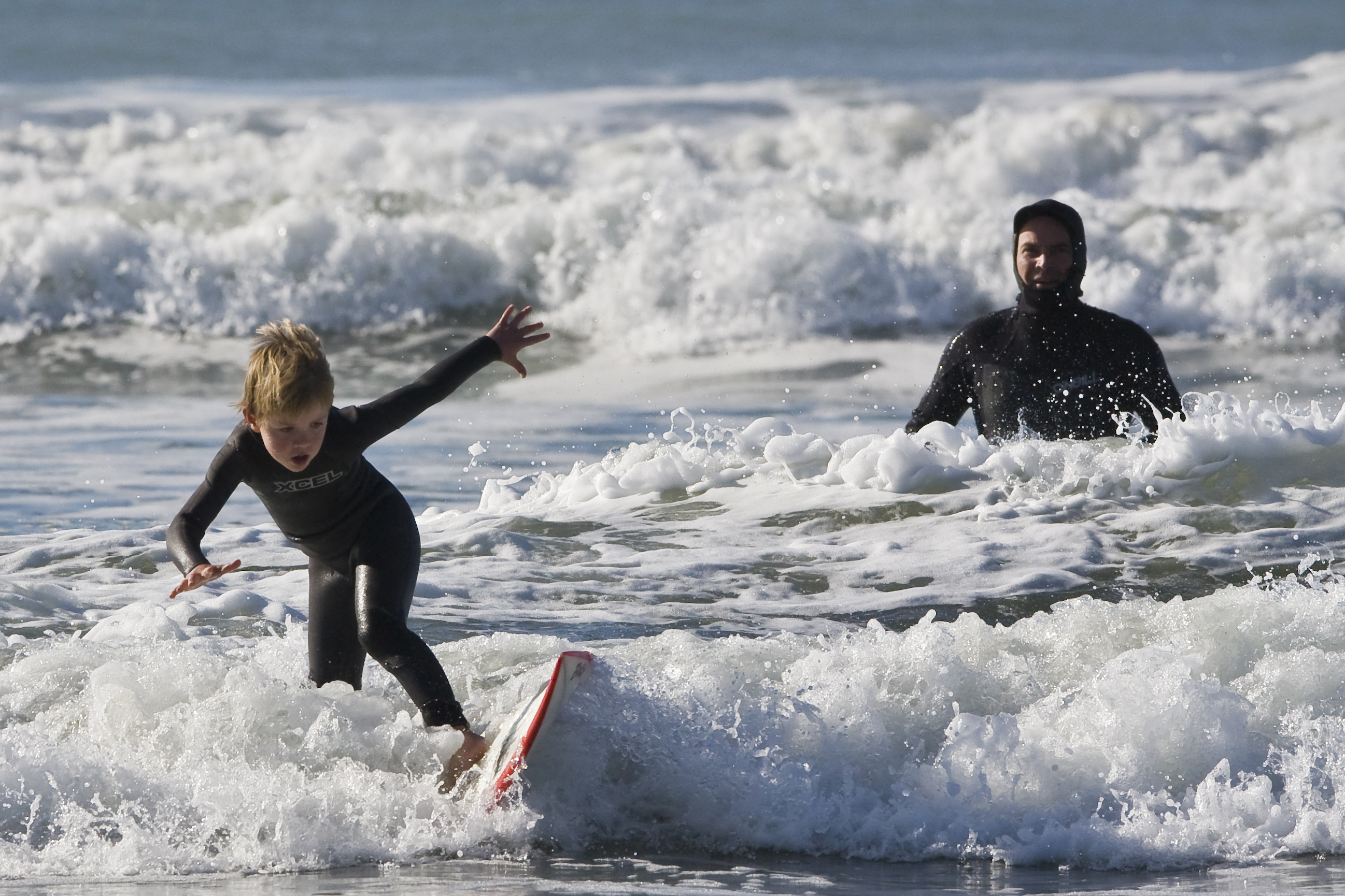 "Father and son surf lesson in Morro Bay, CA. Father is Ben Monmonier, son is Julian Boqha Monmonier. I like this wholesome family-oriented series of 12 images of a father and his son bonding during a surf lesson. They had a great time, and the little grom Julian took the new surf name Boqha to commemorate this step in his life. Boqha has great form and is a natural. Watch for future commercial endorsements for this athlete. The father gave me permission to photograph their entire surf lesson today 21 Dec 2007 Friday 21dec2007 - Photo by Mike Baird, Canon 40D with 300mm f/2.8 IS lens handheld". Photo 11 of 12 in a series licensed under CC-BY at Flickr. Other pictures from the series at Commons: 12.